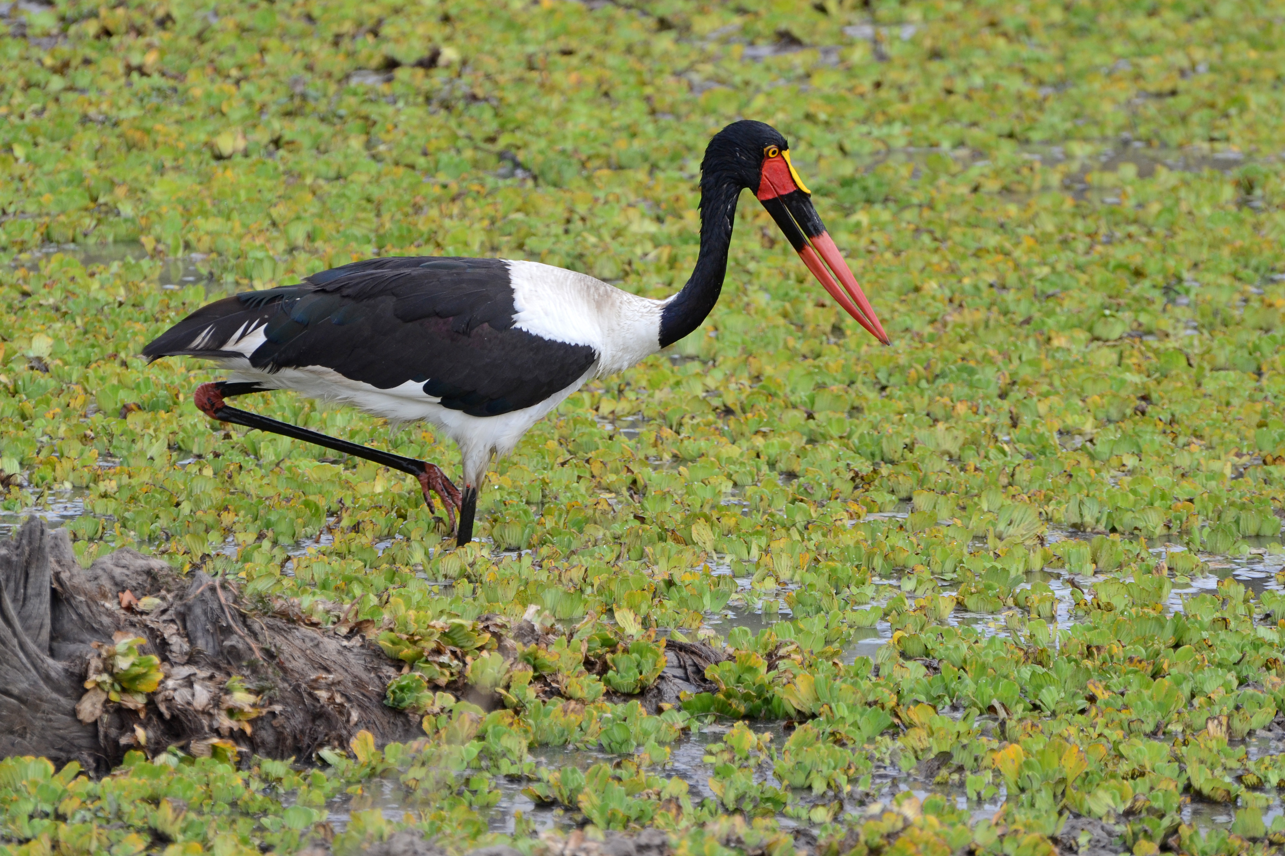 A female Saddle-billed Stork in South Luangwa National Park, Zambia.